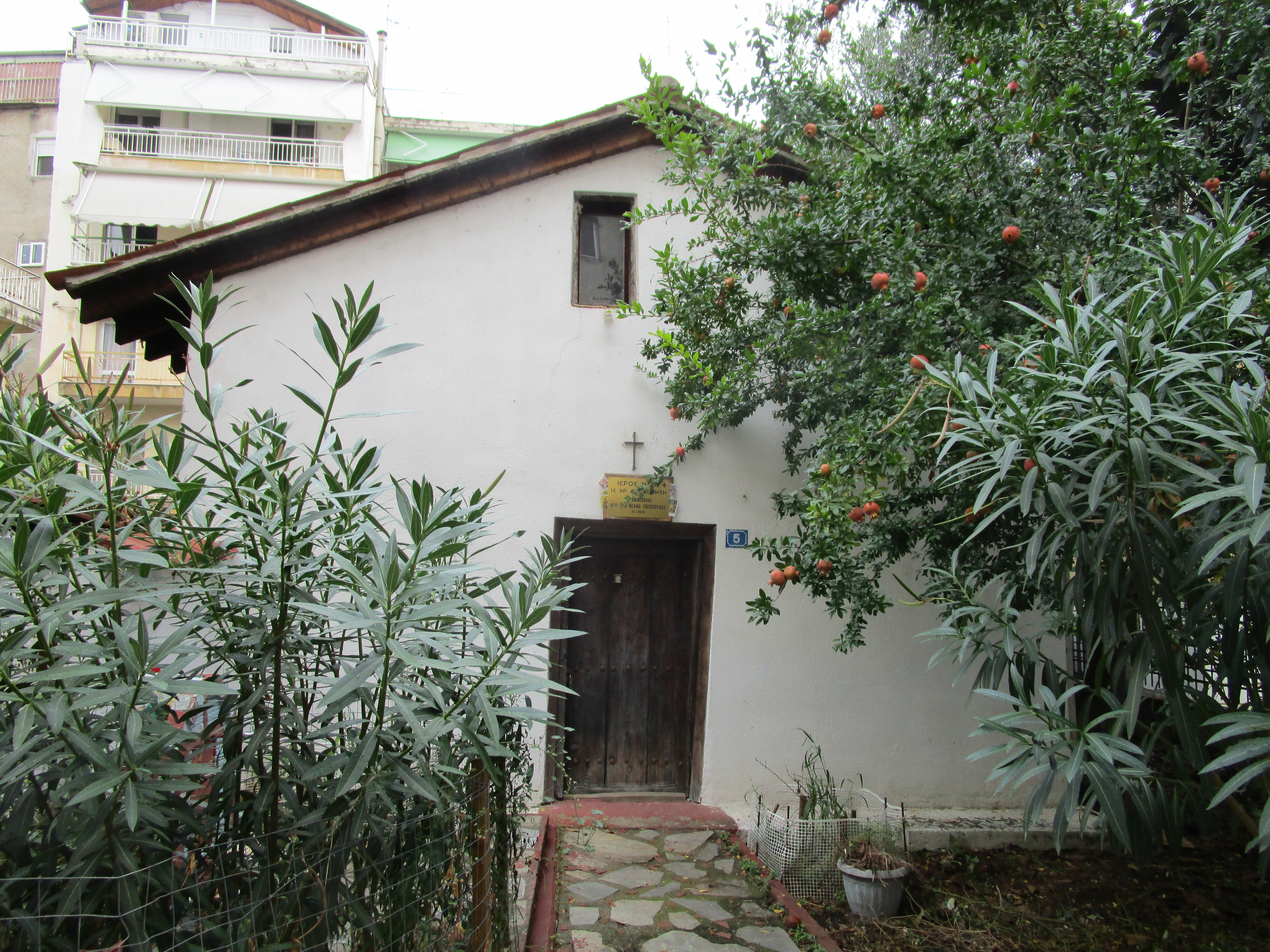 IS HS Antifonit, Ber